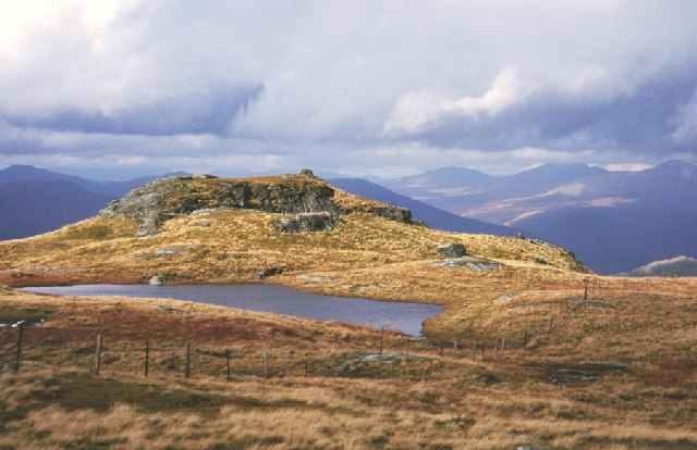 On Beinn a' Choin. Small lochan just below the summit.